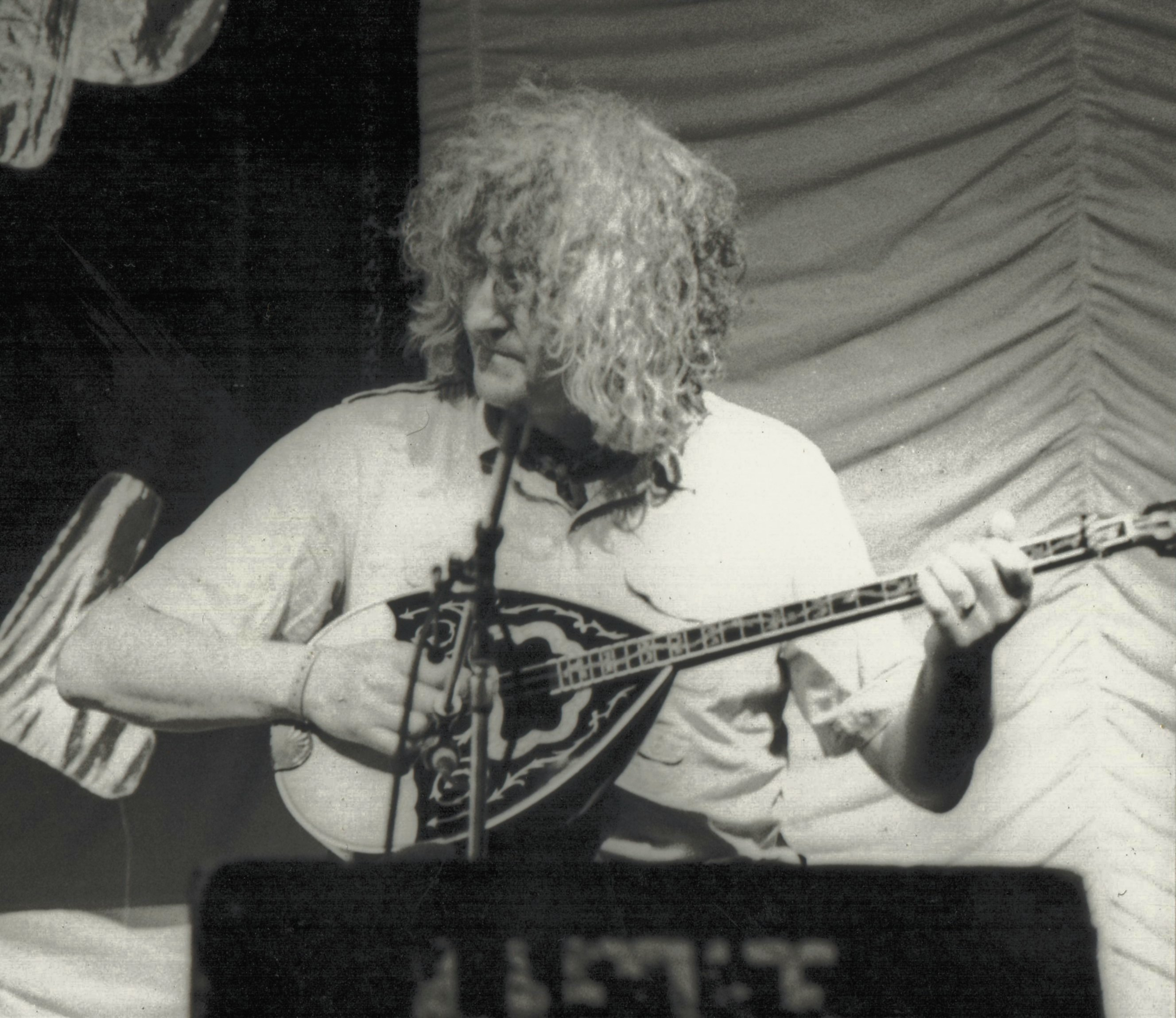 Bouzouki player Alec Finn with De Dannan, Irish folk band at the Trowbridge Folk Festival, 1985 (Tony Rees photograph).